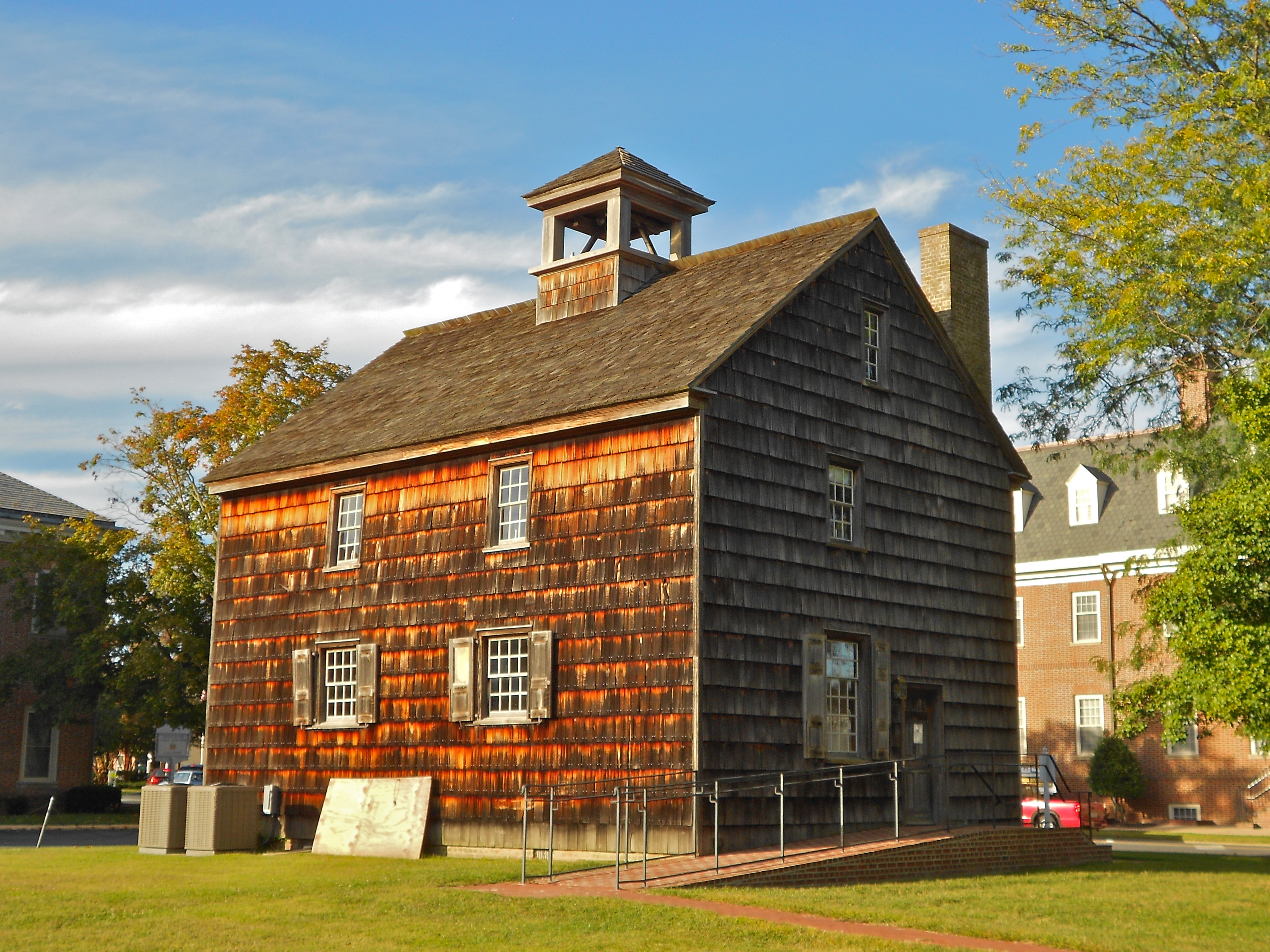 The Old Sussex County Courthouse — on S. Bedford St. near the Circle, in Georgetown, Sussex County, Delaware. Listed on the NRHP on March 24, 1971.